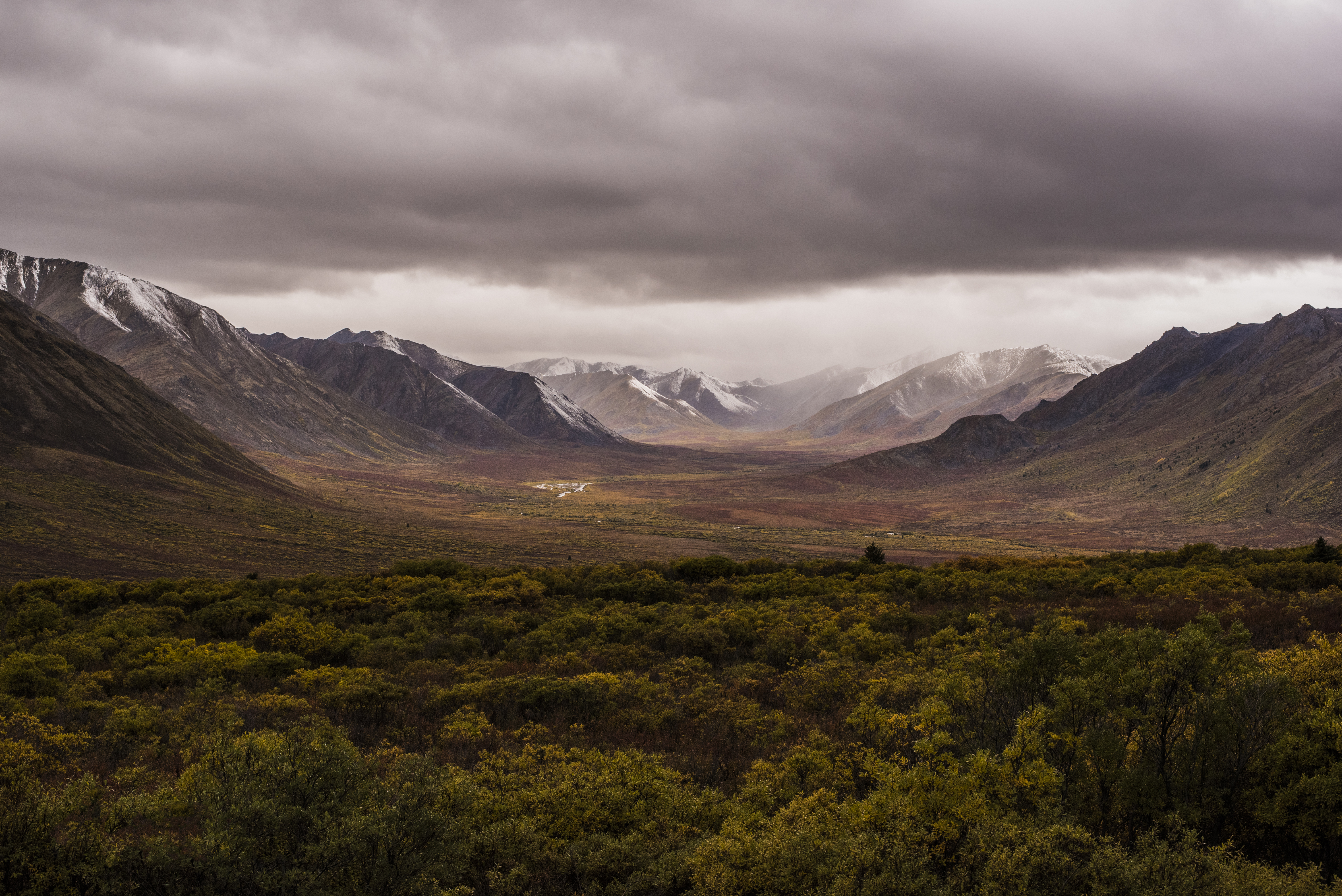 The vast open space of Yukon's protected Tombstone Territorial Park offers an abundance of color and seasons throughout the year. This was taken in September. This photo was taken in a protected area in Canada, Wikidata item Tombstone Territorial Park (Q844692)